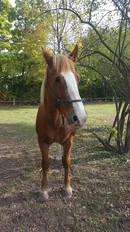 A photo of a Belgian Draft Horse taken at the Van Saun Zoo in Bergen County, NJ.